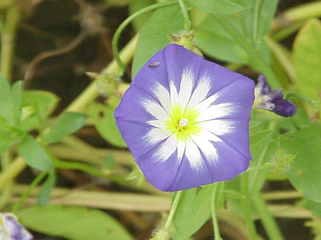 Species: Convolvula tricolor Family: Convolvulaceae Image No. 1